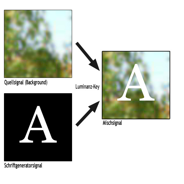 Example of Luminance Key (German)